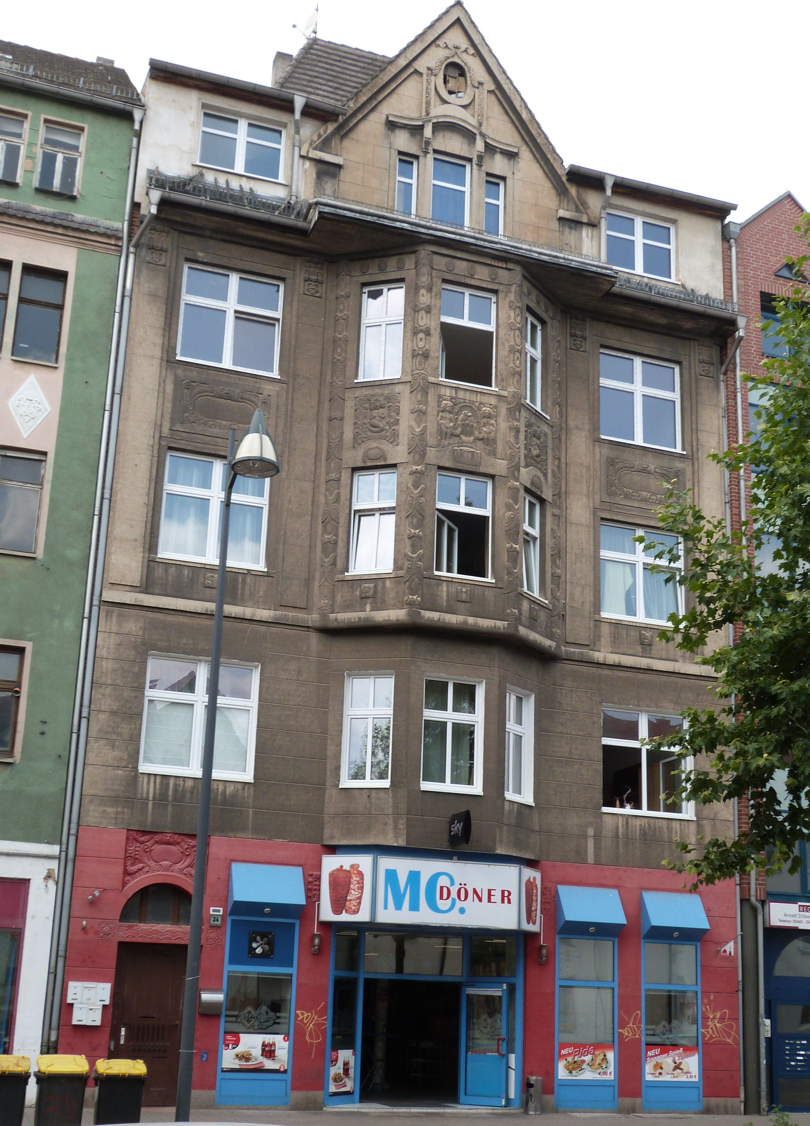 House No. 34, Merseburger Strasse, Weissenfels, Saxony-Anhalt